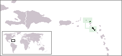 For use in St. Kitts Nevis Anguilla, based off of Image:LocationAnguilla.png, a wikipedia map, seen below. Image:LocationAnguilla.png